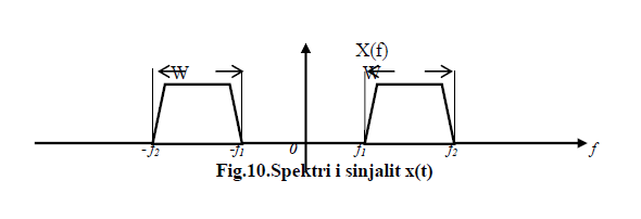 Spektri i sinjalit të zhvendosur